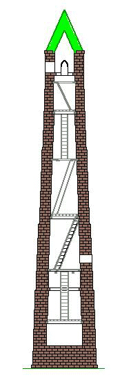 Round Tower Principle